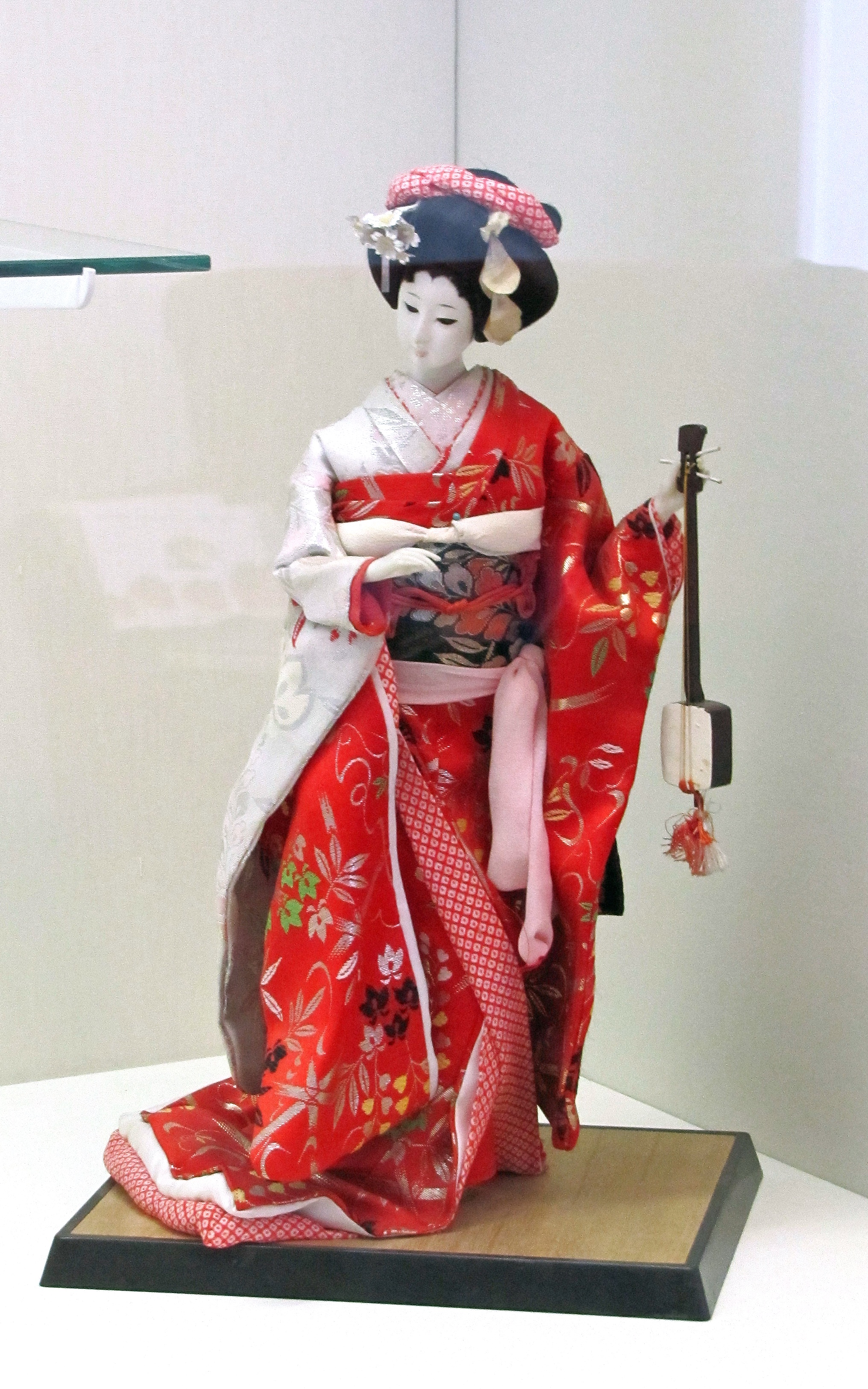 Puppet museum, Hanau-Wilhelmsbad, Staatspark, Hesse, Germany.